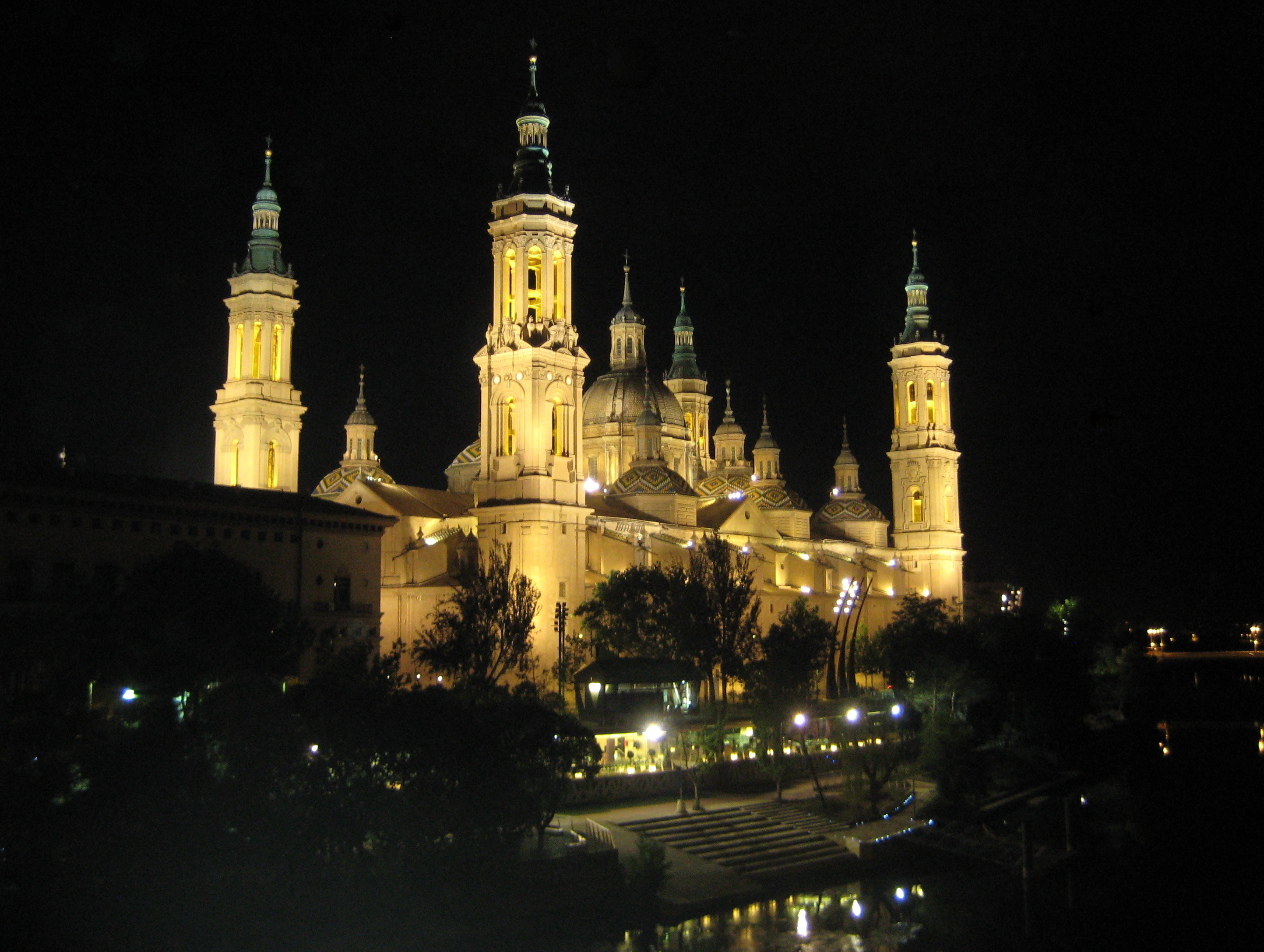 Nostra Signora del Pilar